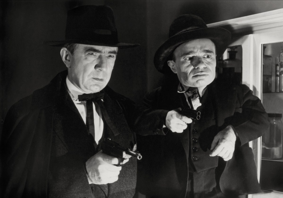 Béla Lugosi (left) & Angelo Rossitto in Scared to Death - publicity still